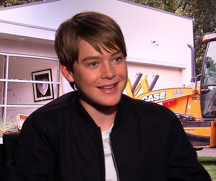 American actor Judah Lewis sits down with Arthur Kade of Behind the Velvet Rope TV to talk about starring alongside Jake Gyllenhaal in Jean-Marc Vallée's "Demolition".